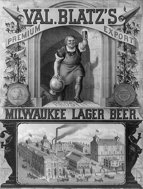 Black and white print of chromolithograph advertising poster for Valentin Blatz's premium export Milwaukee Lager Beer, showing a brewer raising a glass of beer, and a bird's-eye view of the brewery.